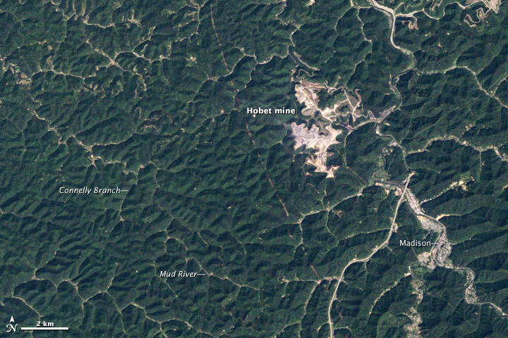 This image of a surface mine in Boone County, West Virginia from 1984. Below the densely forested slopes of southern West Virginia’s Appalachian Mountains is a layer cake of thin coal seams. To uncover this coal profitably, mining companies engineer large—sometimes very large—surface mines. Based on data from NASA’s Landsat 5 satellite, this natural-color (photo-like) image document the Hobet mine in 1984. The natural landscape of the area is dark green, forested mountains, creased by streams and indented by hollows. The active mining areas appear off-white, while areas being reclaimed with vegetation appear light green. A pipeline roughly bisects the images from north to south. The town of Madison, lower right, lies along the banks of the Coal River.